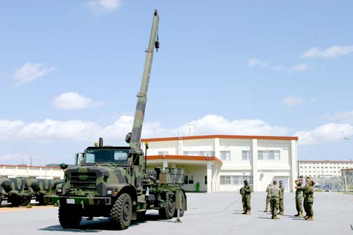 A group of Marines learn about the MK36 in an operators' license course for the MK36 Medium Tactical Vehicle Replacement wrecker at 3rd Transportation Support Battalion's motor pool on Camp Foster, Okinawa, 18 March 2005.